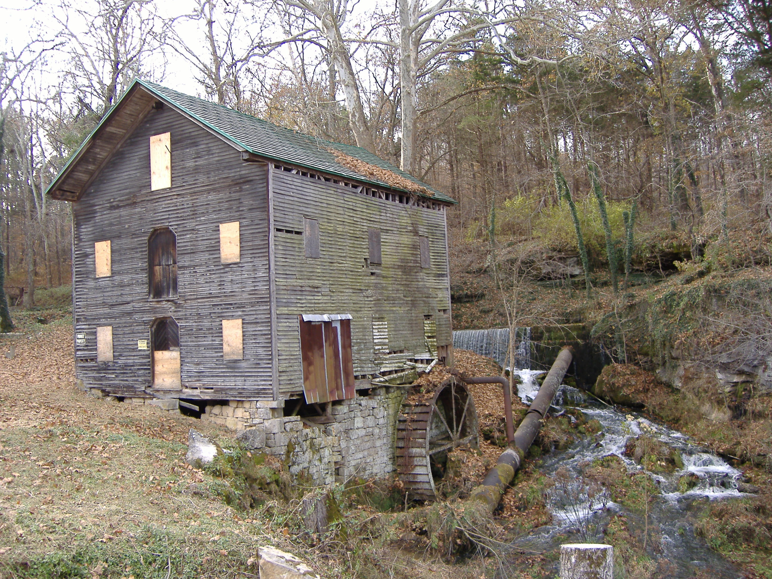 Picture of Beck's Mill in Washington County, seven miles southwest of Salem on Beck's Mill Road. This is the original of the pic, not resized for normal WP use.